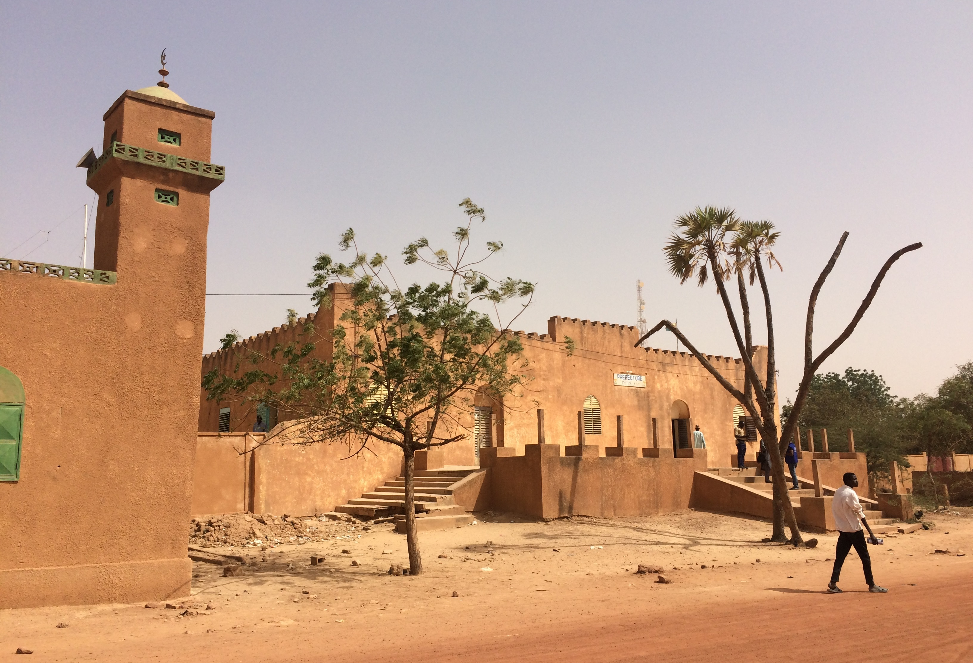 The préfecture in Filingué, a provincial town in Niger.